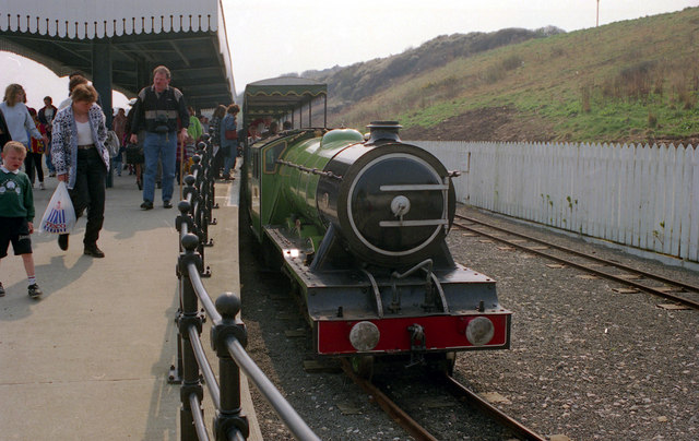 North Bay Railway at Scalby, Scarborough. Little boys of all ages love a miniature railway, and Scarborough has a fine example dating back to the 1920s, which runs from Peasholm Park to Scalby. The engines are modelled on the popular LNER Pacifics. When I revisited Scarborough in 1995 after an interval of fifty years, I expected it would all have disappeared, but it was still there, and I enjoyed it just as much at the age of 60 as I had at the age of 10! And the fish and chips in Scarborough were as good as ever.